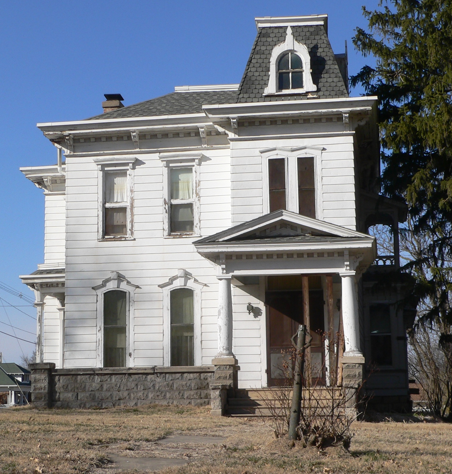 Mann-Zwonecek house, located at northeast corner of First and High Streets in Wilber, Nebraska. The house faces south, toward First. View is from the south.